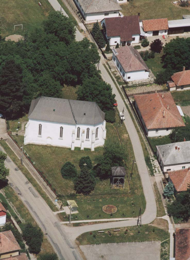 Temple - Jánkmajtis - Hungary - Europe